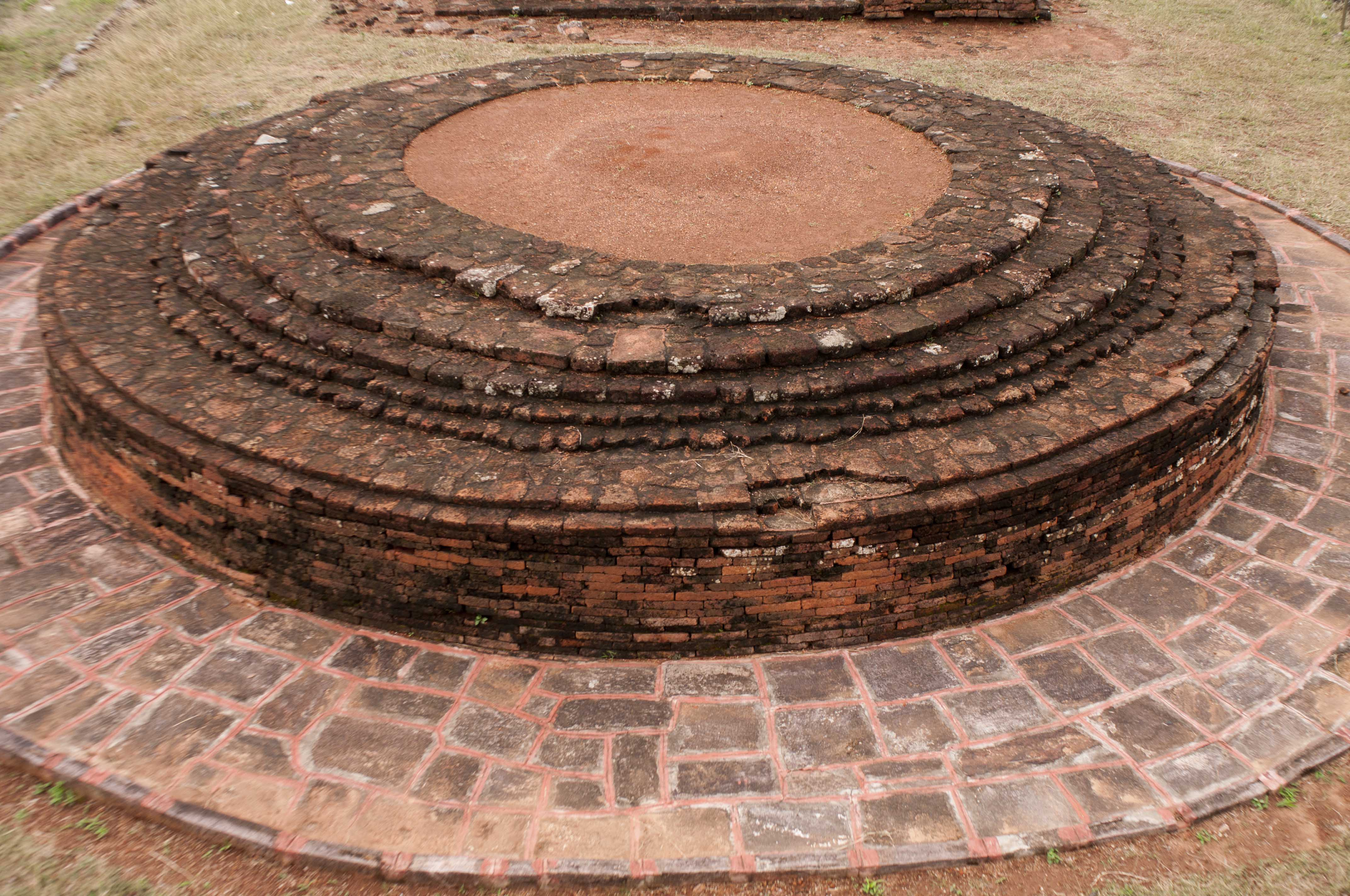 Buddhist remains: 1) Six Images 2) Three images and some more images on the hill 3) One image 4) Three images